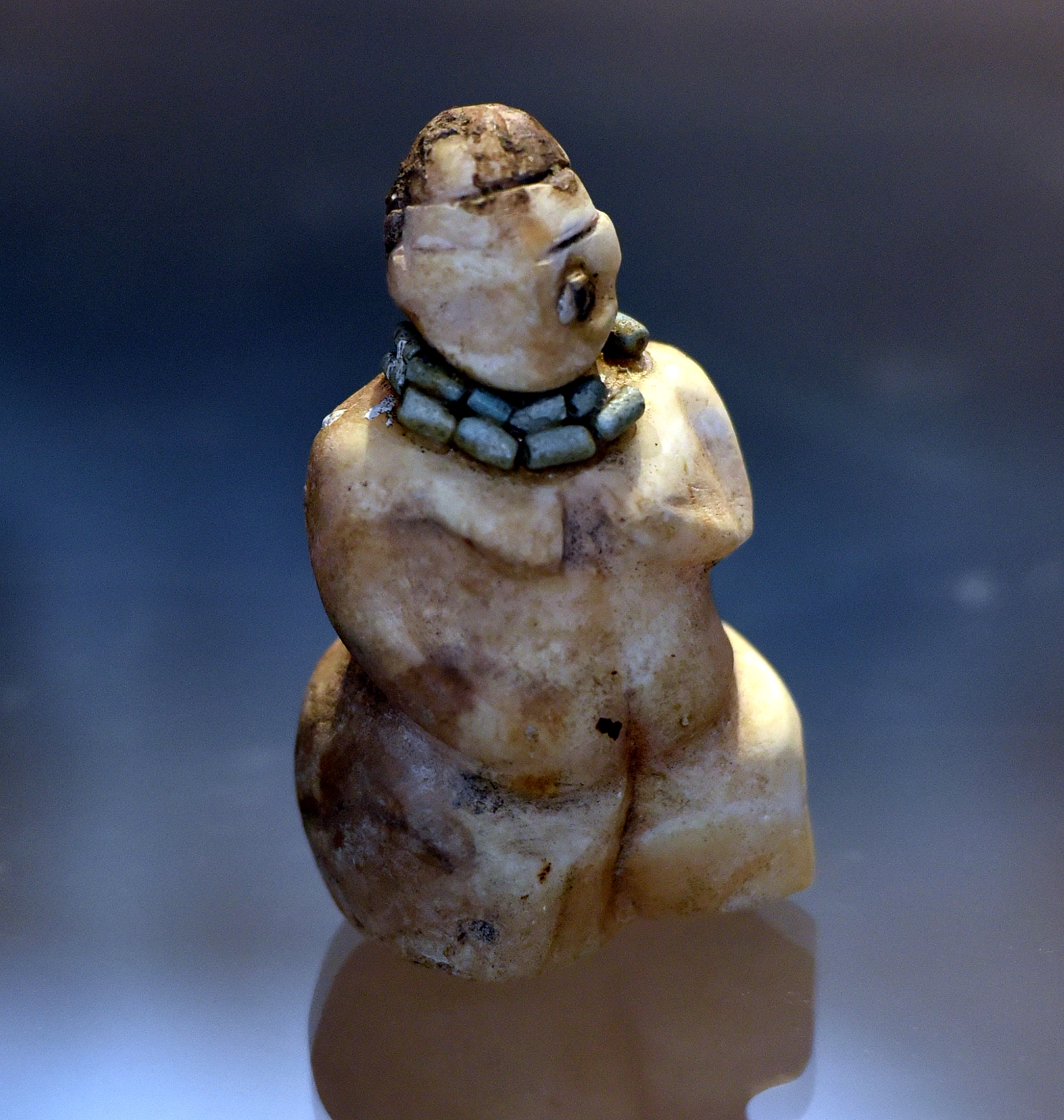 This small marble figurine was found at Tell es-Sawwan. Probably, it represents a mother goddess. The eyes are inlaid with shells set in bitumen. Tell es-Sawwan is an ancient archaeological site in Saladin Province (about 110 Km north of Baghdad) and is associated with the Samarra culture. 6000-5800 BCE. On display at the Iraq Museum in Baghdad, Iraq.